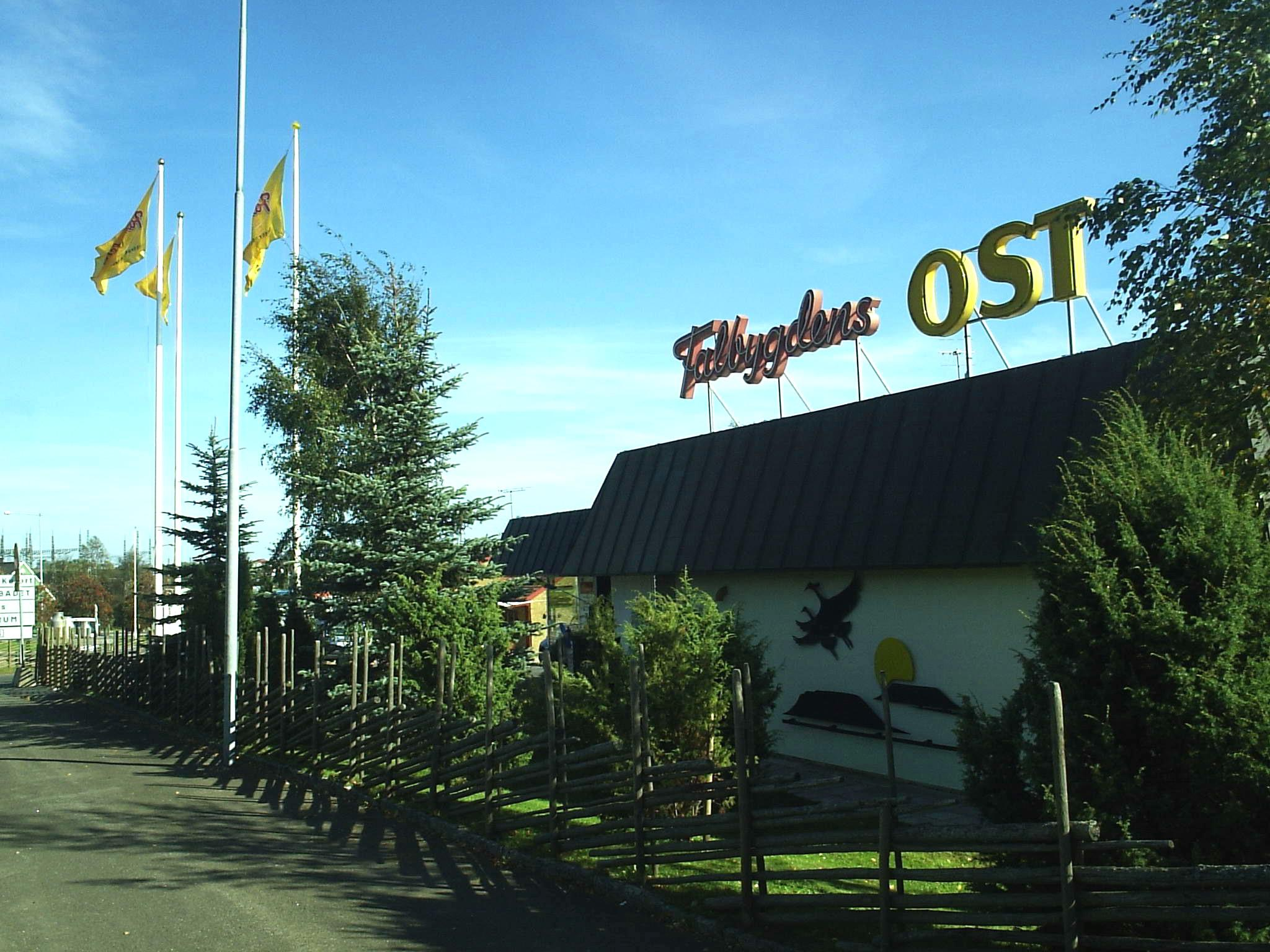 Photo by Harri Blomberg.